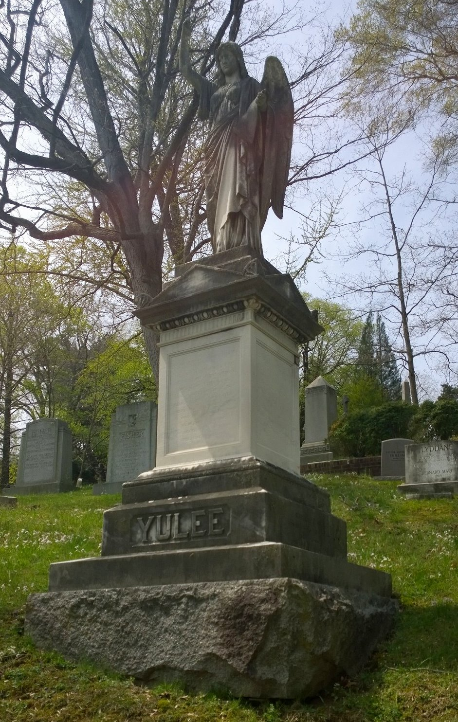 David Yulee Funerary memorial, Oak Hill Cemetery, Georgetown, Washington, D.C.